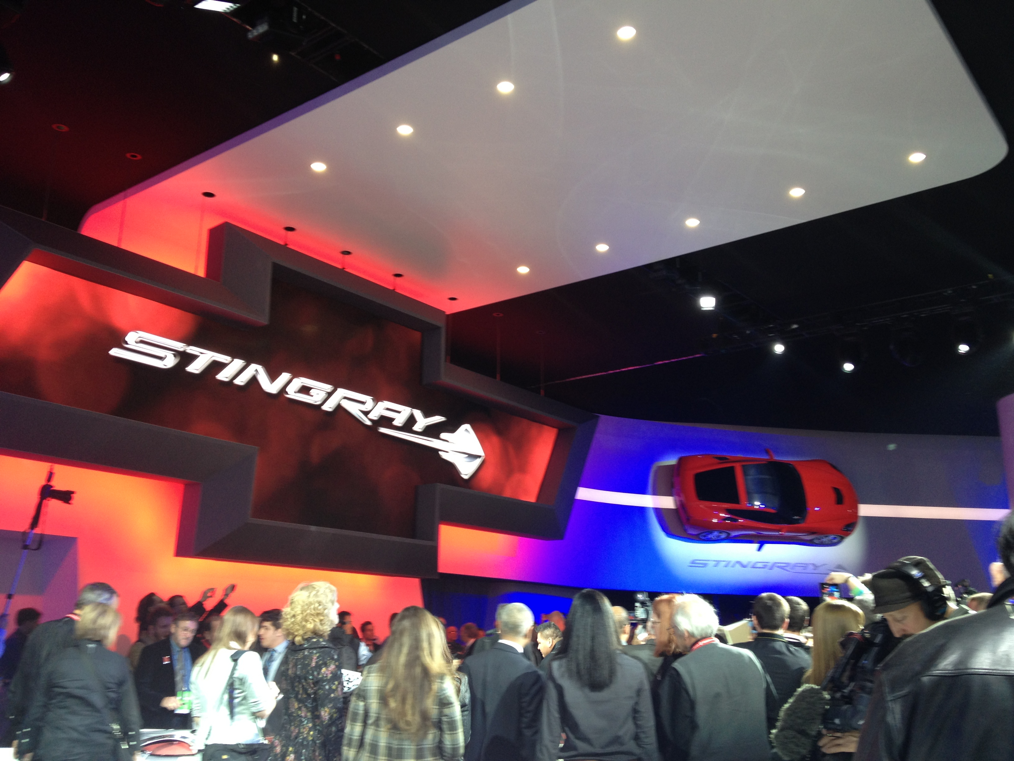 2013 North American International Auto Show Detroit, Michigan